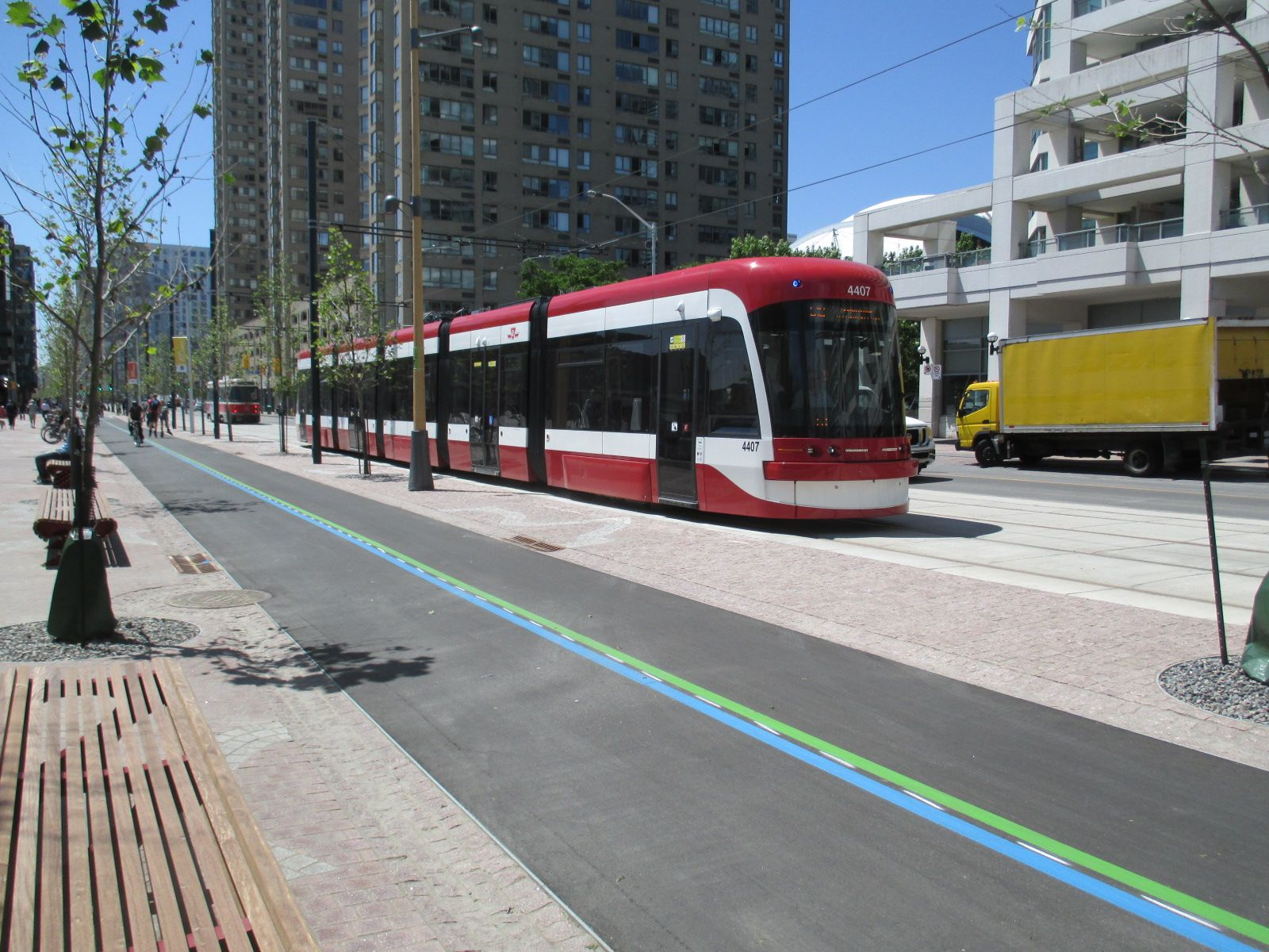 Streetcars run along parkland between the street (right) and a bicycle path lined with rows of trees and with pedestrian space (left).